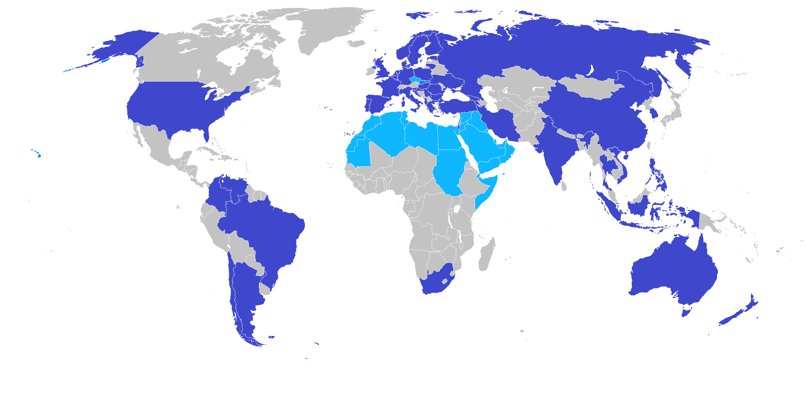 a Map of Got Talent in the World, joint shows in Lighter Blue